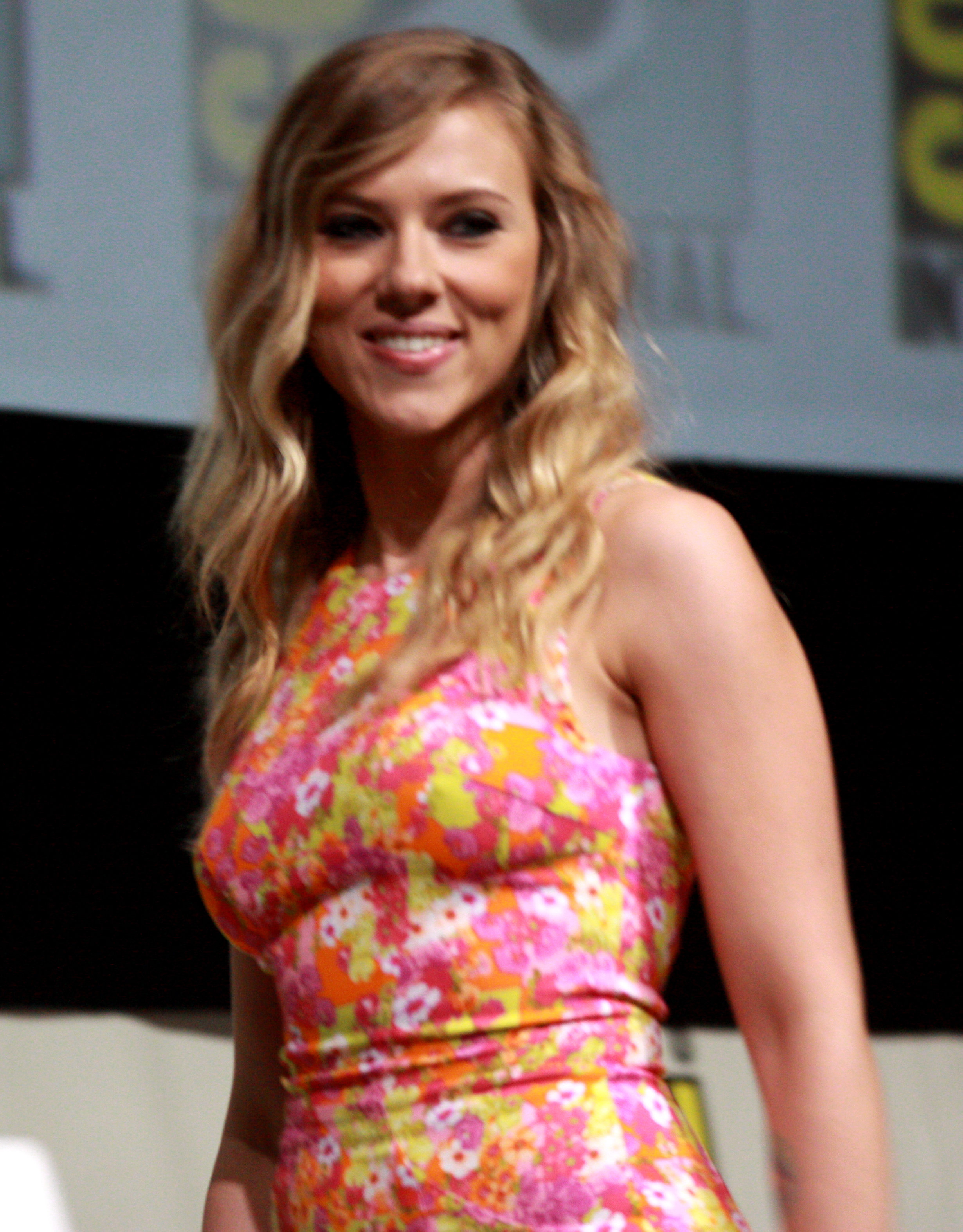 Scarlett Johansson at the 2013 San Diego Comic Con International